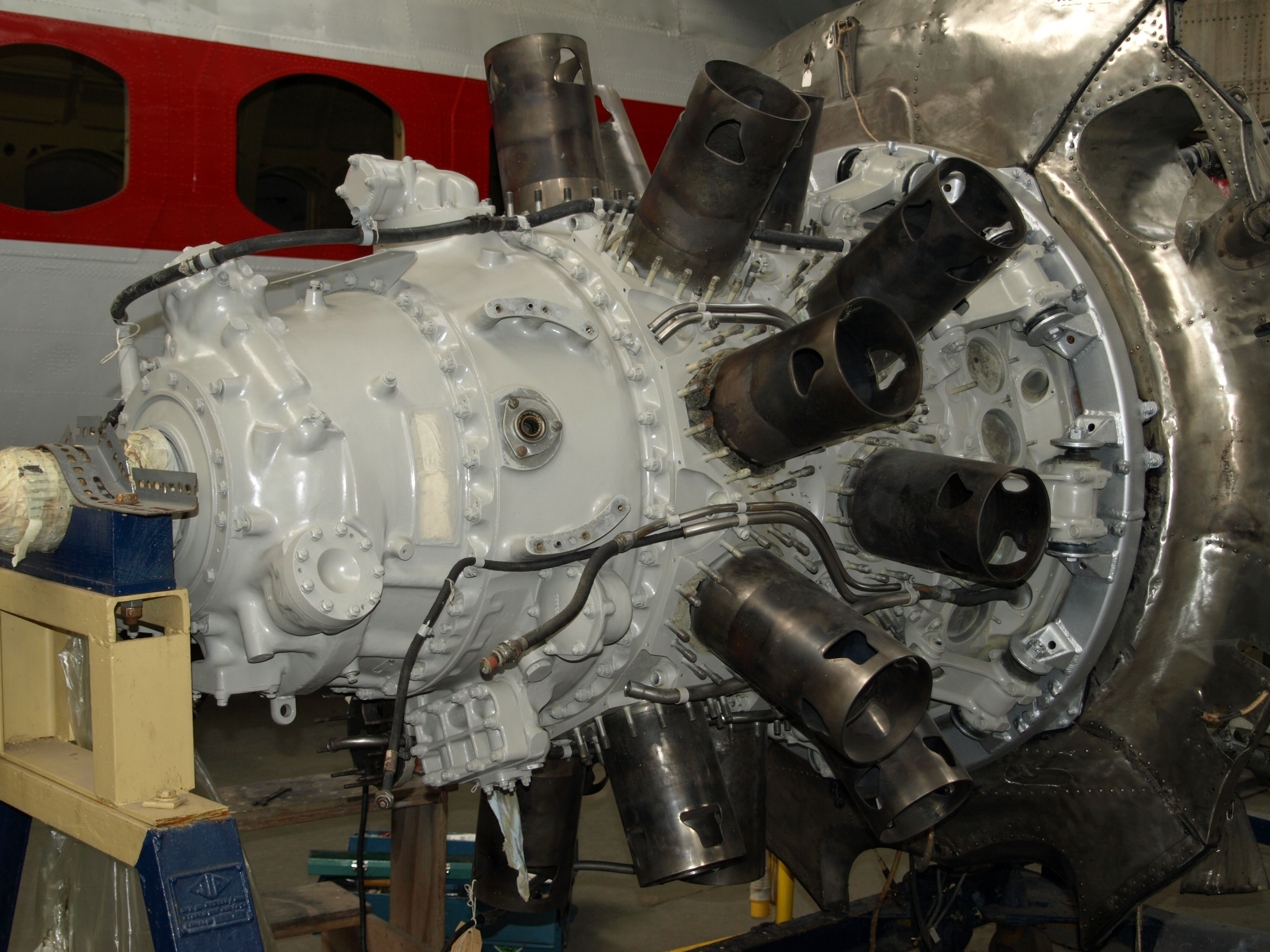 Bristol Centaurus aircraft engine (cylinders removed) at IWM Duxford